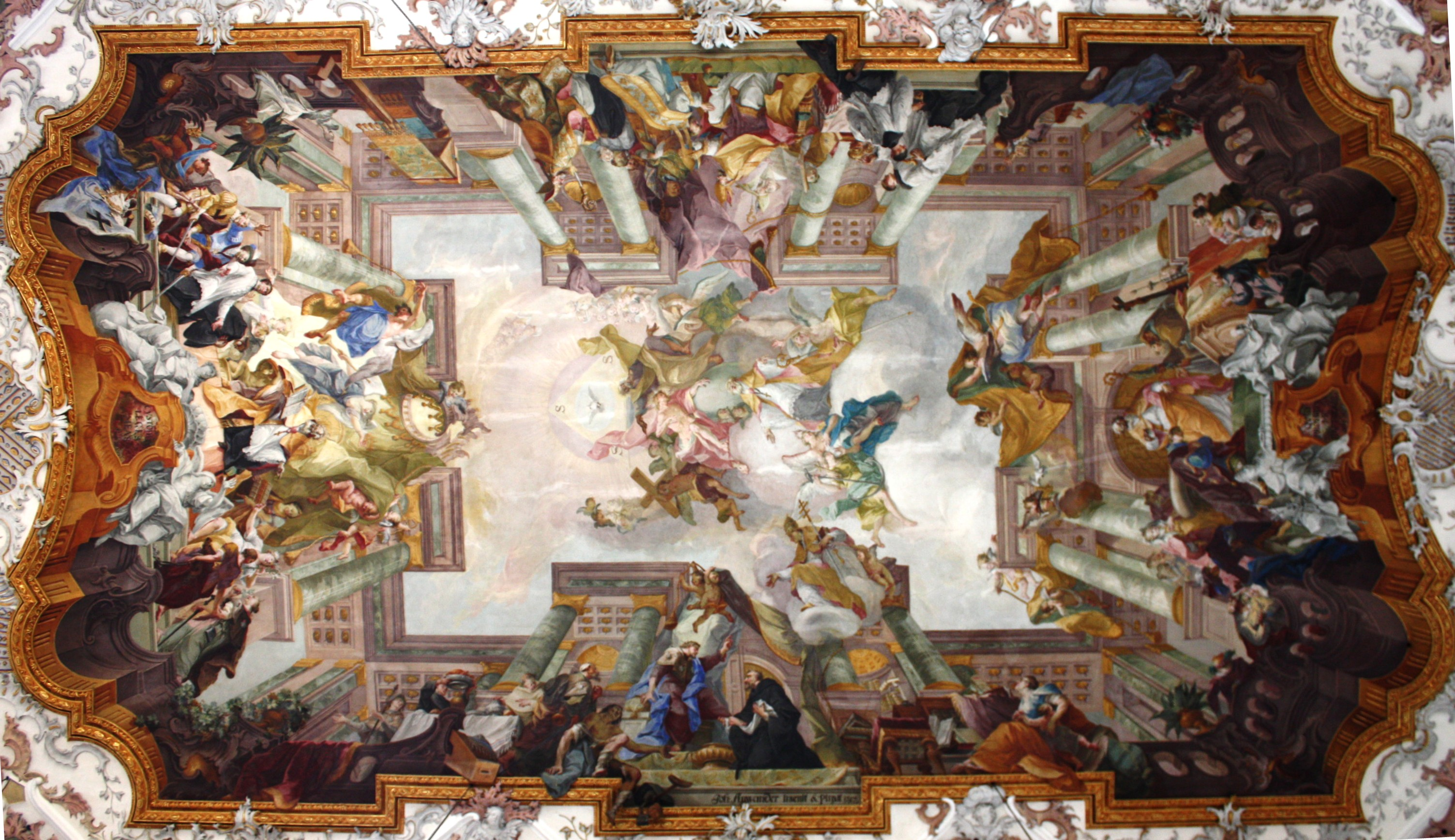 ceiling fresco, Augustinuschurch Schwaebisch Gmuend